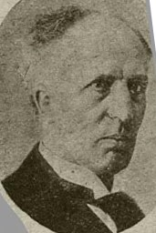 Dutch linguist Frederik August Stoett (1863-1936)